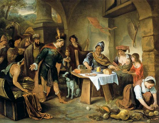 Manius Curius Dentatus and the Samnite Ambassadors.